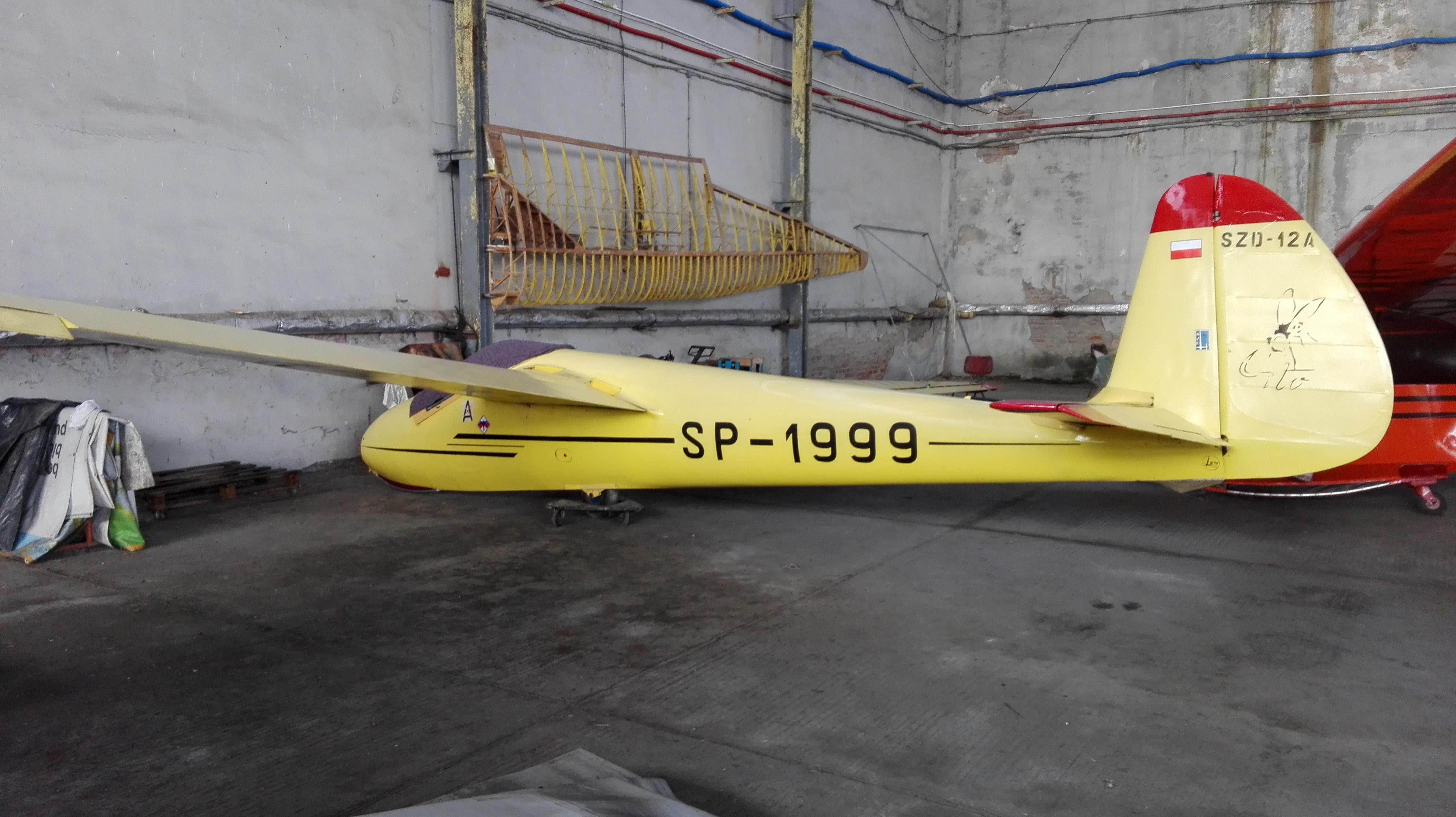 SZD-12 Mucha 100A